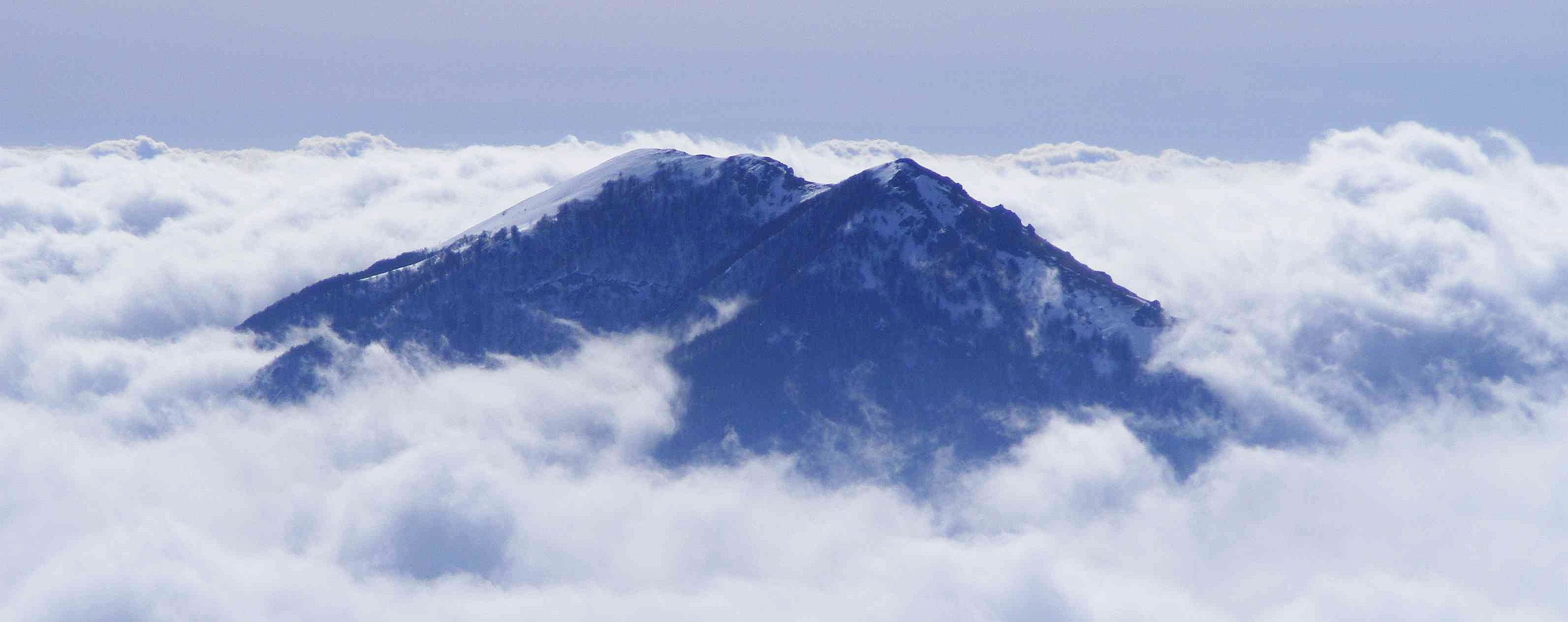 Mount Galero from Monte Berlino (Ligurian Alps, CN, Italy)